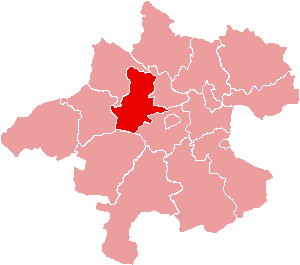 Location of Bezirk Grieskirchen within the Land of Upper Austria